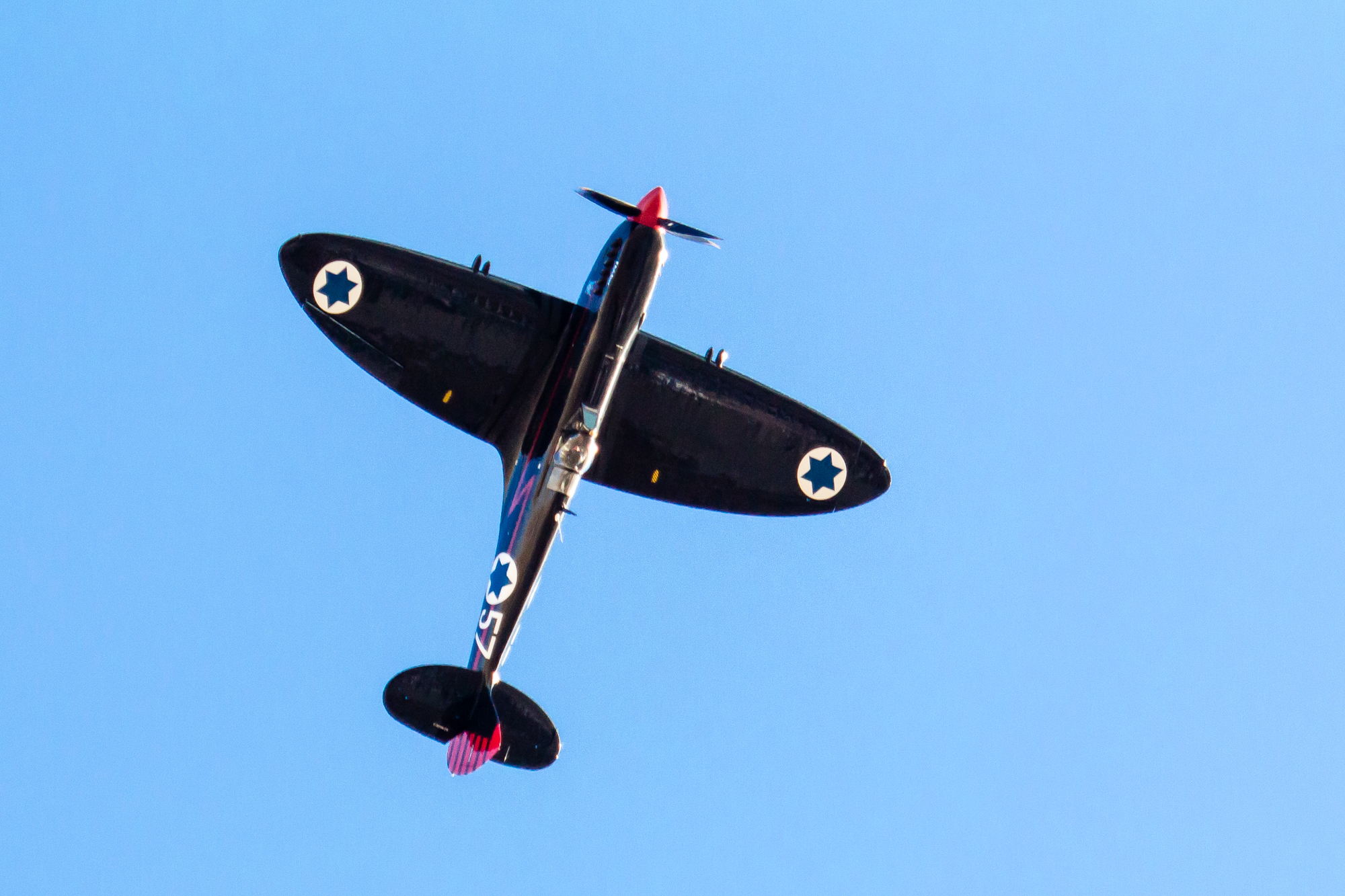 The Israeli Air Force's Supermarine Spitfire TE554